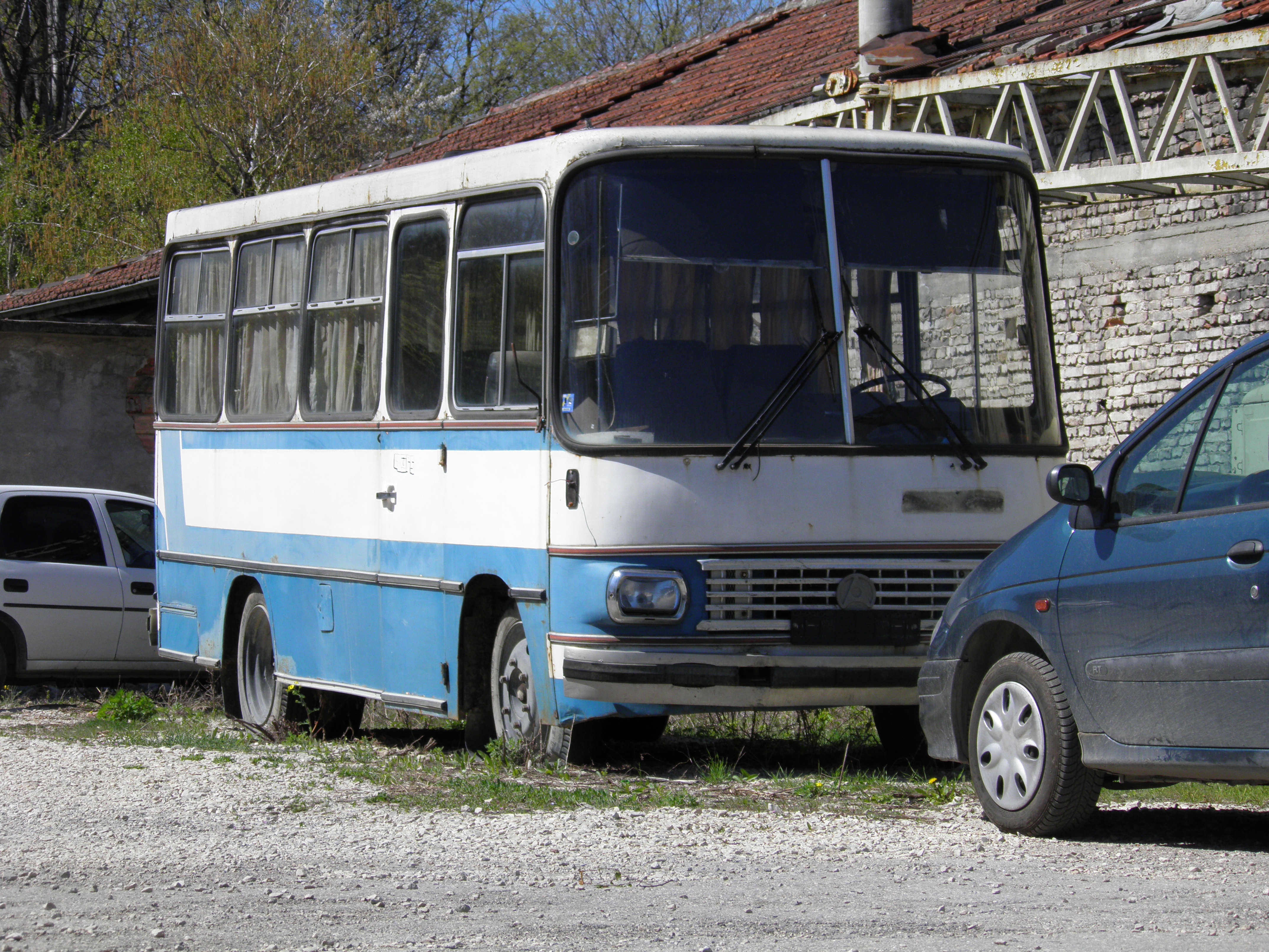 Bulgarian Bus Chavdar LC-51 Avia in Shumen